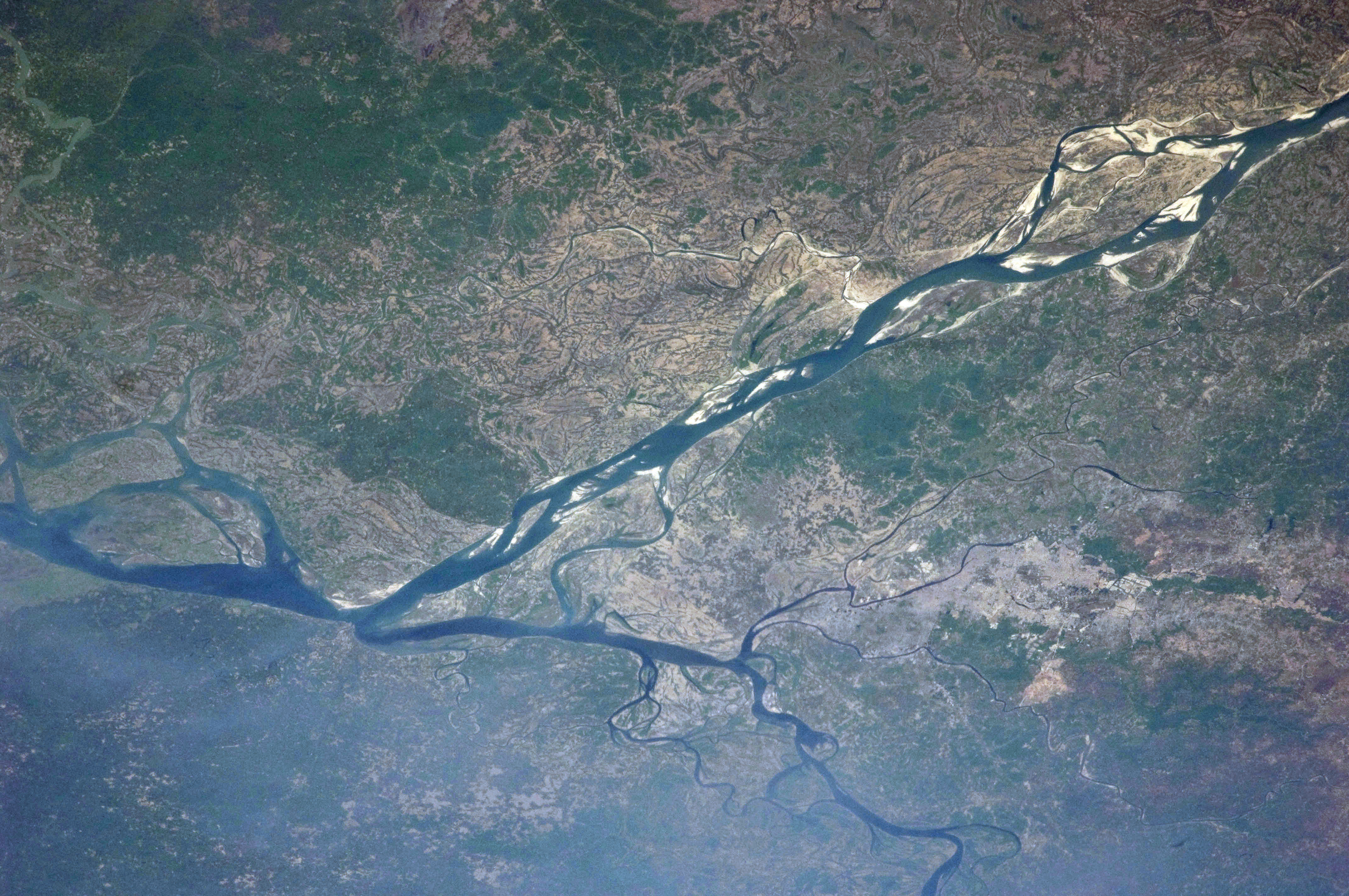 Astronaut Photo of Dhaka, Bangladesh taken from the International Space Station (ISS) during Expedition 22 on March 10, 2010.